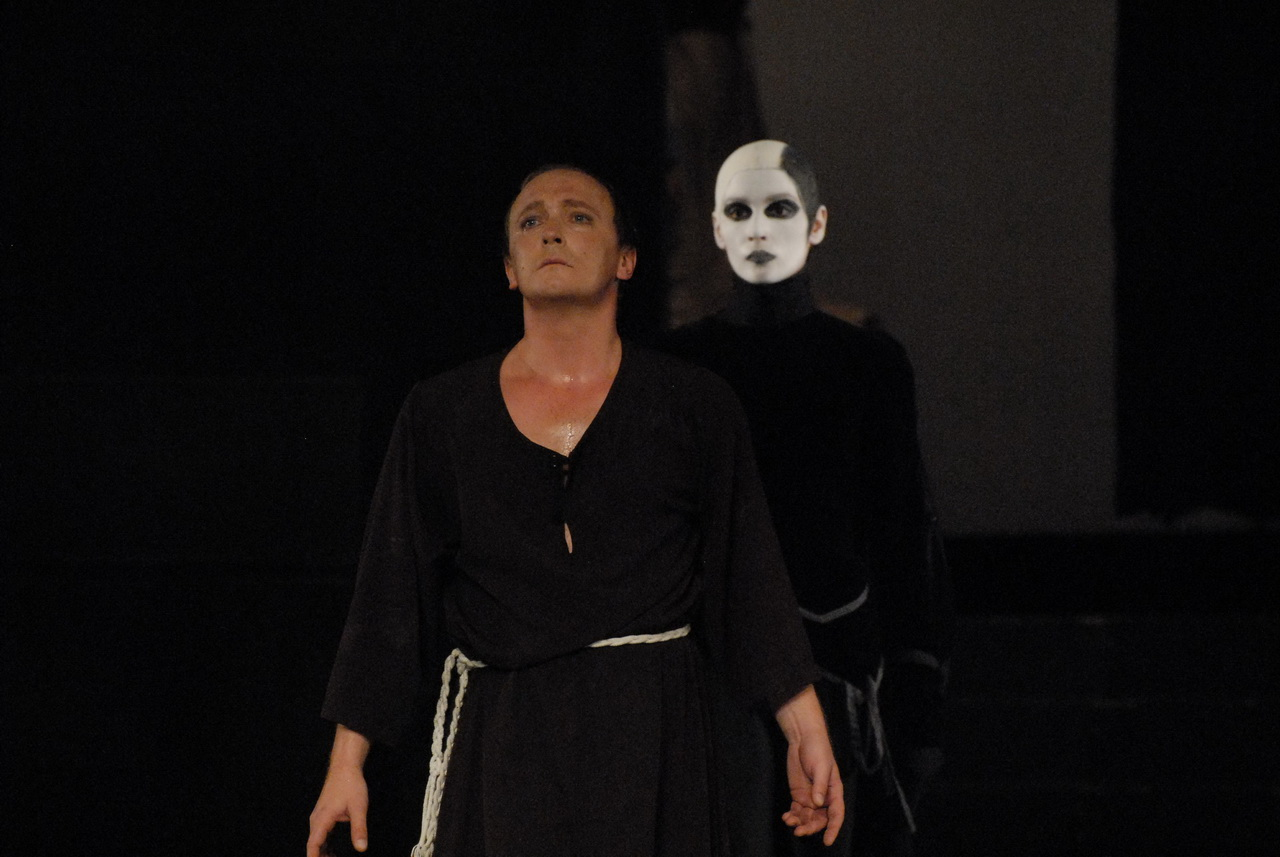 "Romeo and Juliet ", a ballet by Sergei Prokofiev based on William Shakespeare's play Romeo and Juliet; Milan Lazić, SNT, Novi Sad, 2006/07 Srpski (latinica): "Romeo i Julija", balet Sergeja Prokofijeva po istoimenom Šekspirovom komadu; Milan Lazić, SNP, Novi Sad, 2006/07. Српски (ћирилица): "Ромео и Јулија", балет Сергеја Прокофијева по истоименом Шекспировом комаду; Милан Лазић, СНП, Нови Сад, 2006/07.